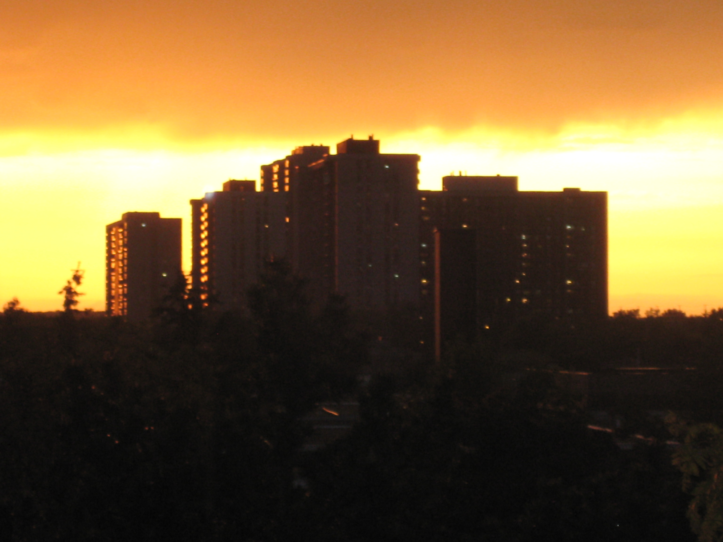 Residential Apartments at Bramalea